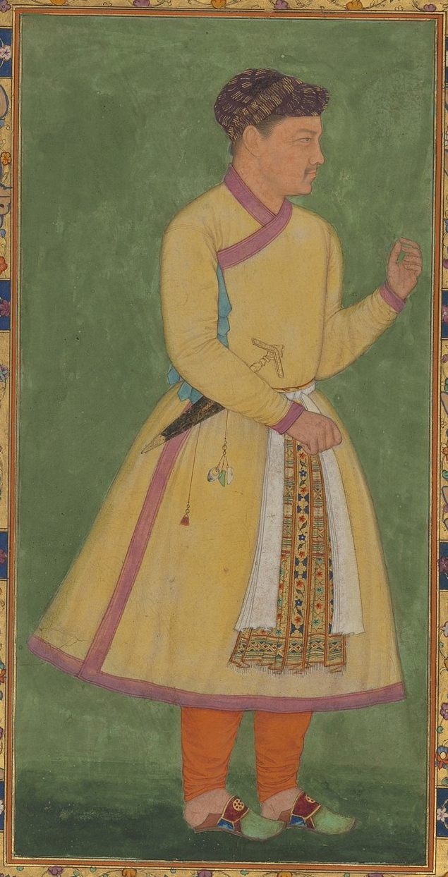 "Portrait of Zamana Beg, Mahabat Khan", Folio from the Shah Jahan Album Manohar (active ca. 1582–1624) Calligrapher: Mir 'Ali Haravi (d. ca. 1550) Object Name: Album leaf Reign: Jahangir (1605–27), recto Date: recto: ca. 1610; verso: ca. 1530–40 Geography: India Medium: Ink, opaque watercolor, and gold on paper Dimensions: H: 15 1/4 in. (38.7 cm) W: 10 5/16 in. (26.2 cm) Classification: Codices Credit Line: Purchase, Rogers Fund and The Kevorkian Foundation Gift, 1955 Accession Number: 55.121.10.3 This artwork is not on display